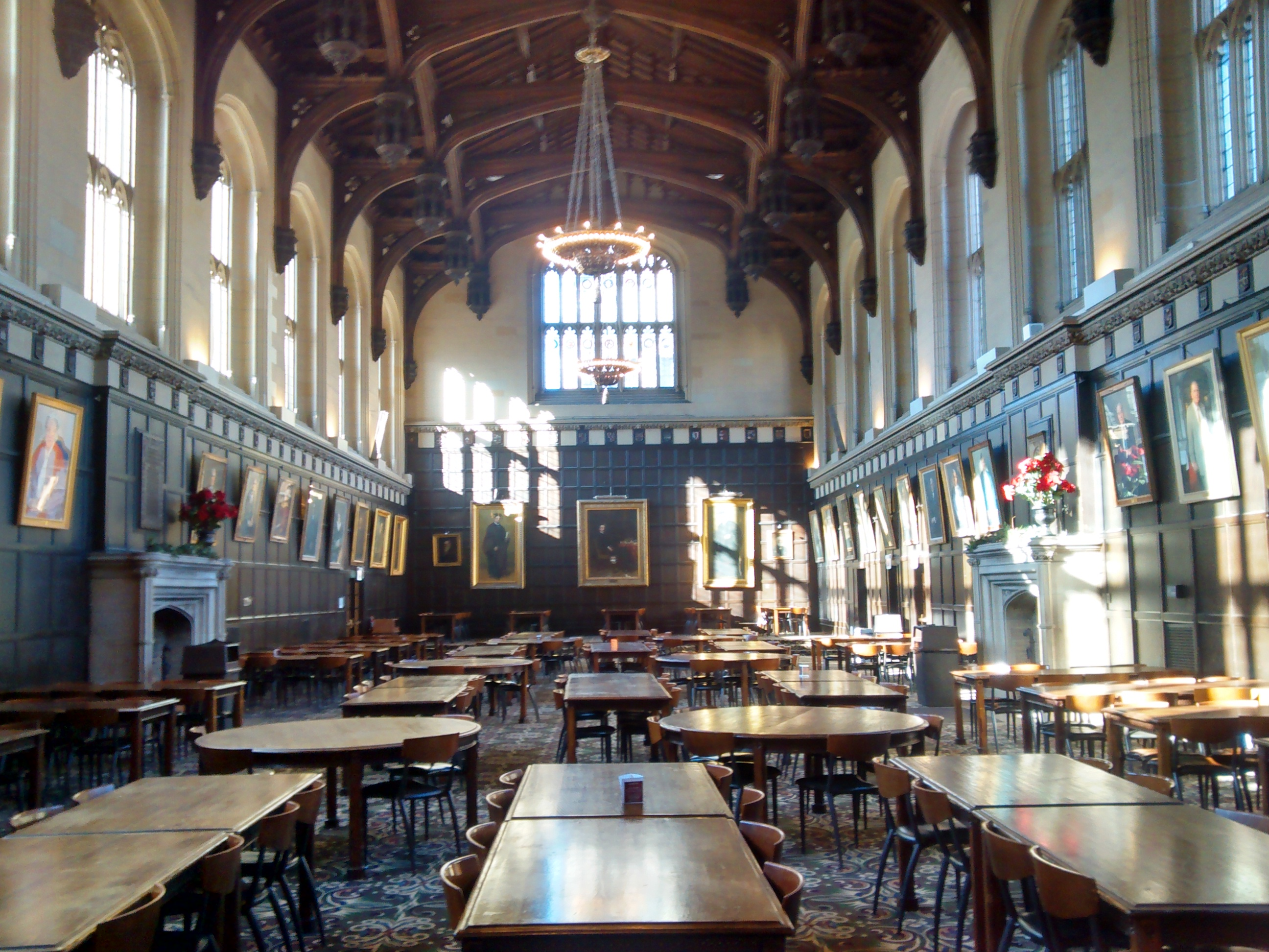 Hutchinson Commons at the University of Chicago in November 2014.